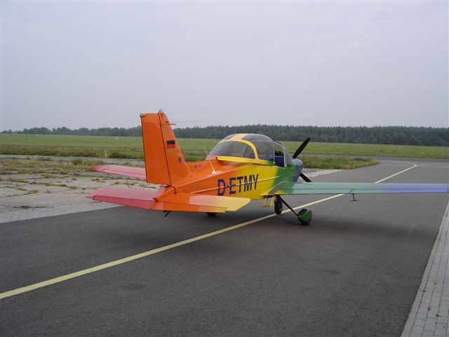 Mylius MY-103 Mistral single engine two seater aircraft developed by Albert Mylius.